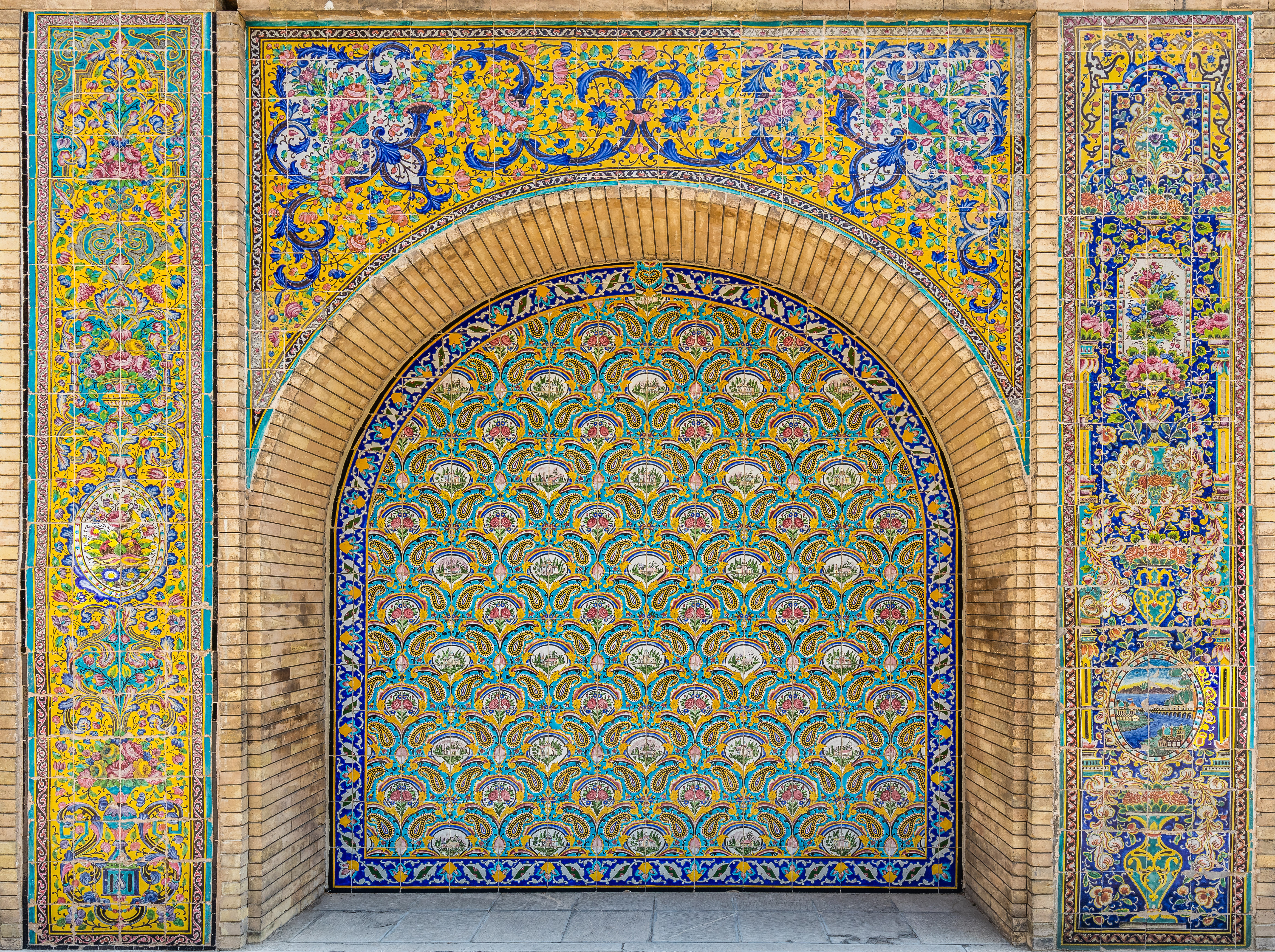 Golestan Palace, Tehran, Iran